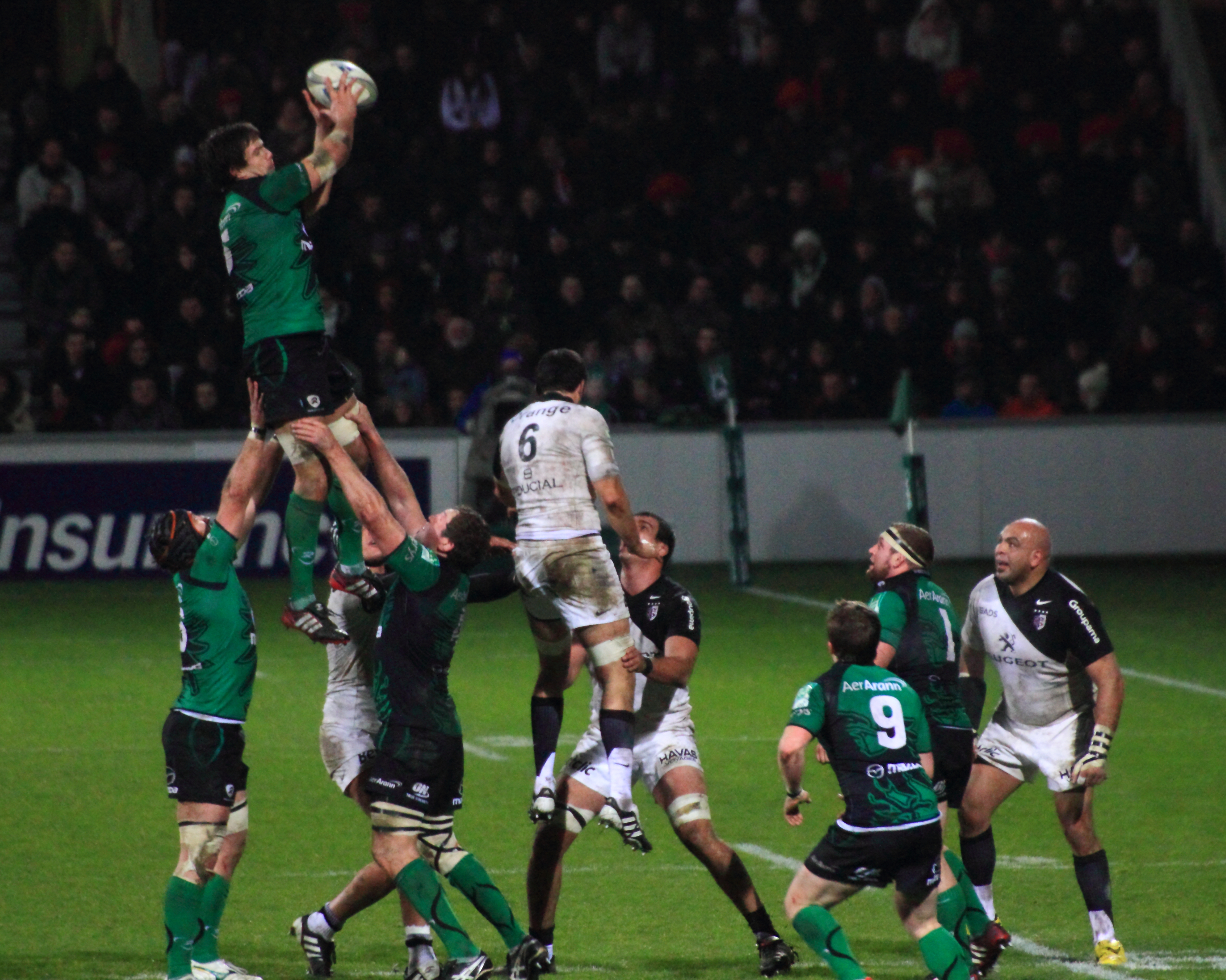 Heineken Cup 2011-2012 — 14 January 2012, Stade Ernest-Wallon. Match between: Stade toulousain — Connacht Rugby